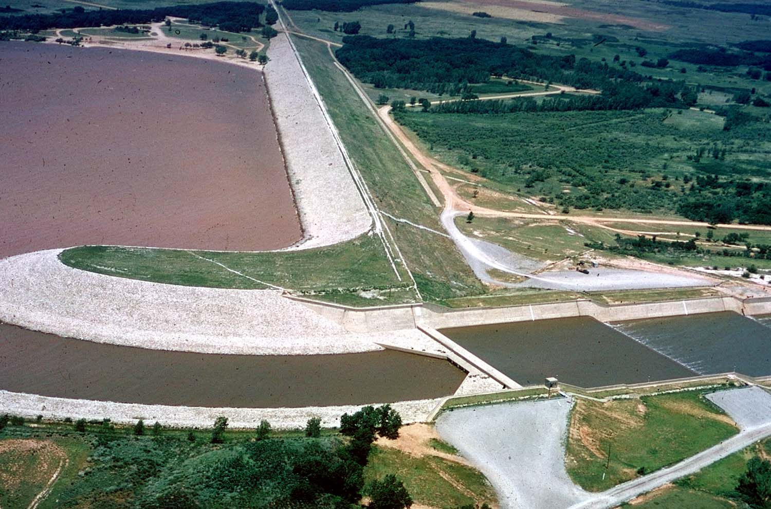 Aerial view of Great Salt Plains Lake Dam on the Salt Fork Arkansas River in Alfalfa County, Oklahoma, USA. The dam was constructed by the U.S. Army Corps of Engineers for flood control and water storage. The Great Salt Plains State Park surrounds the dam. View is to the northwest. Coordinates: 36°44′54.15″N 98°8′20.64″W / 36.748375°N 98.1390667°W